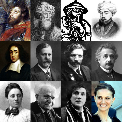 A montage of prominent Jews.